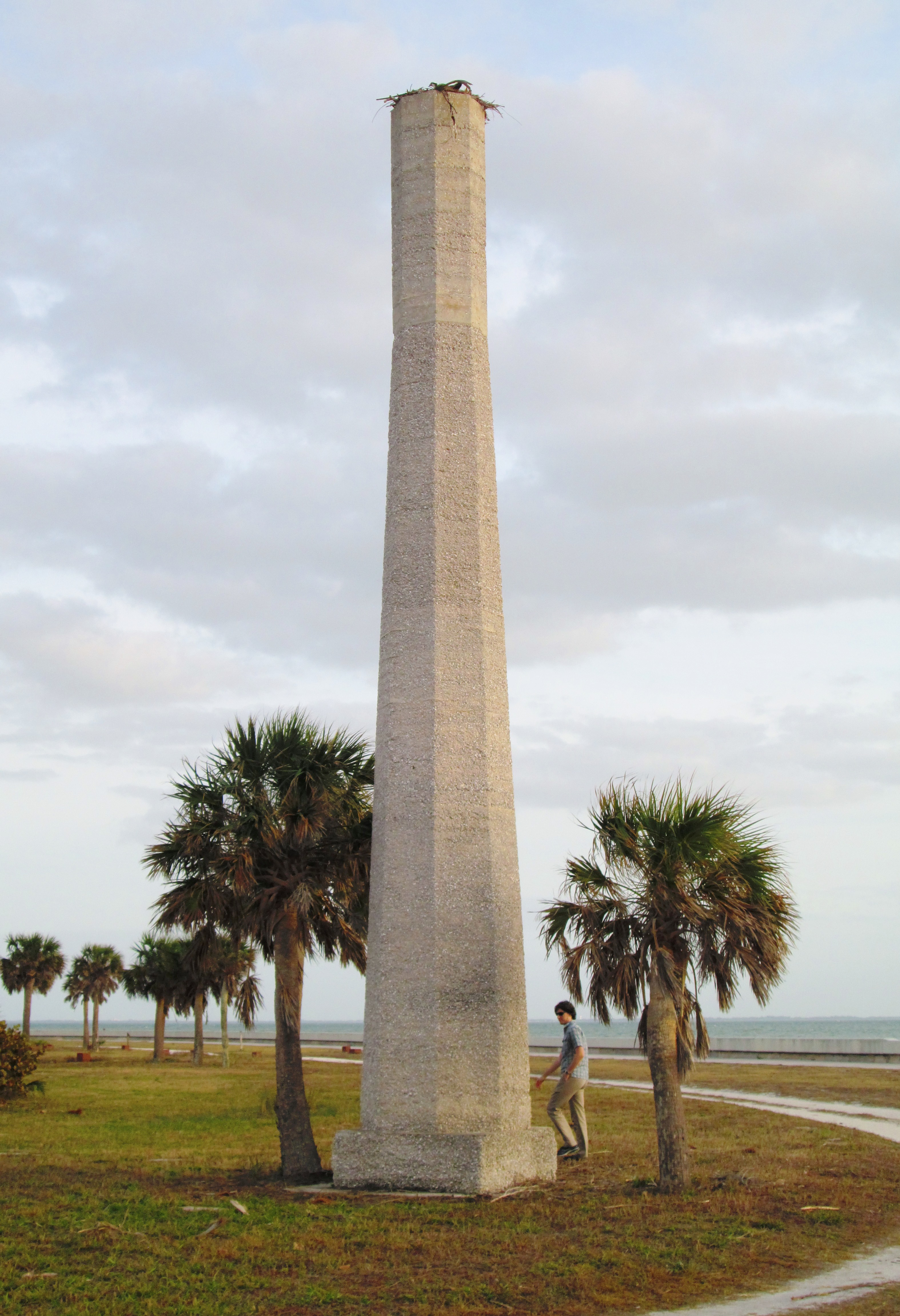 The remains of an observation tower at Fort De Soto Park.